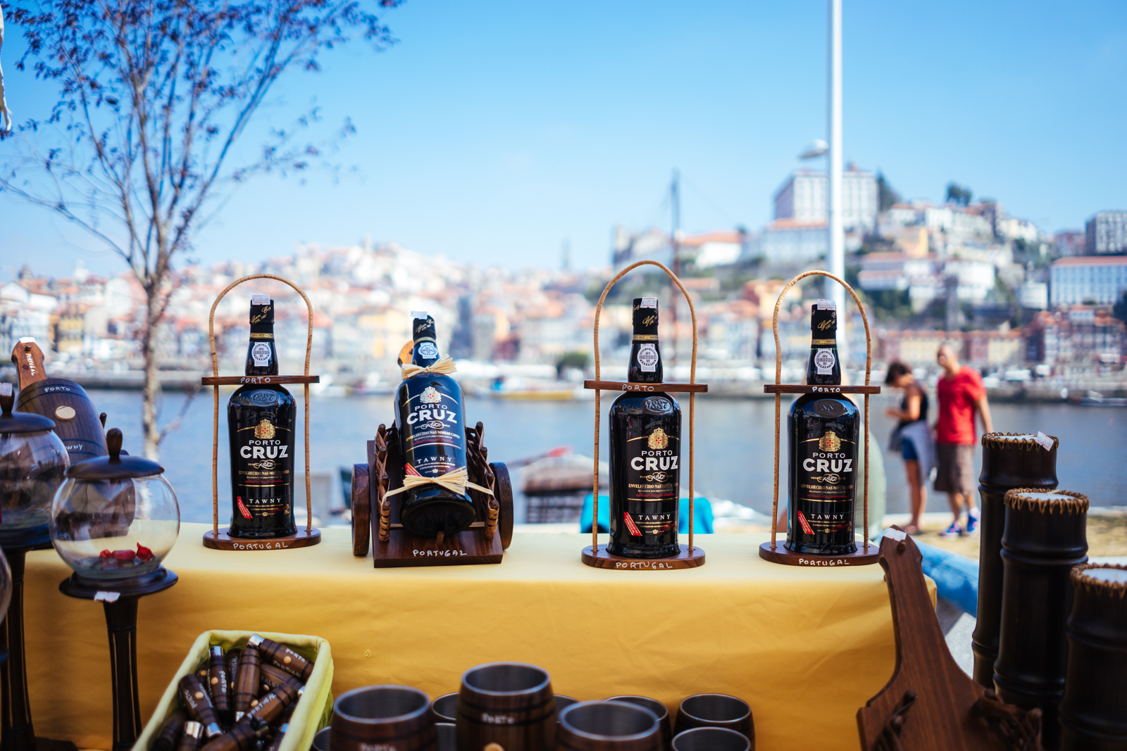 Porto, 19th July 2016